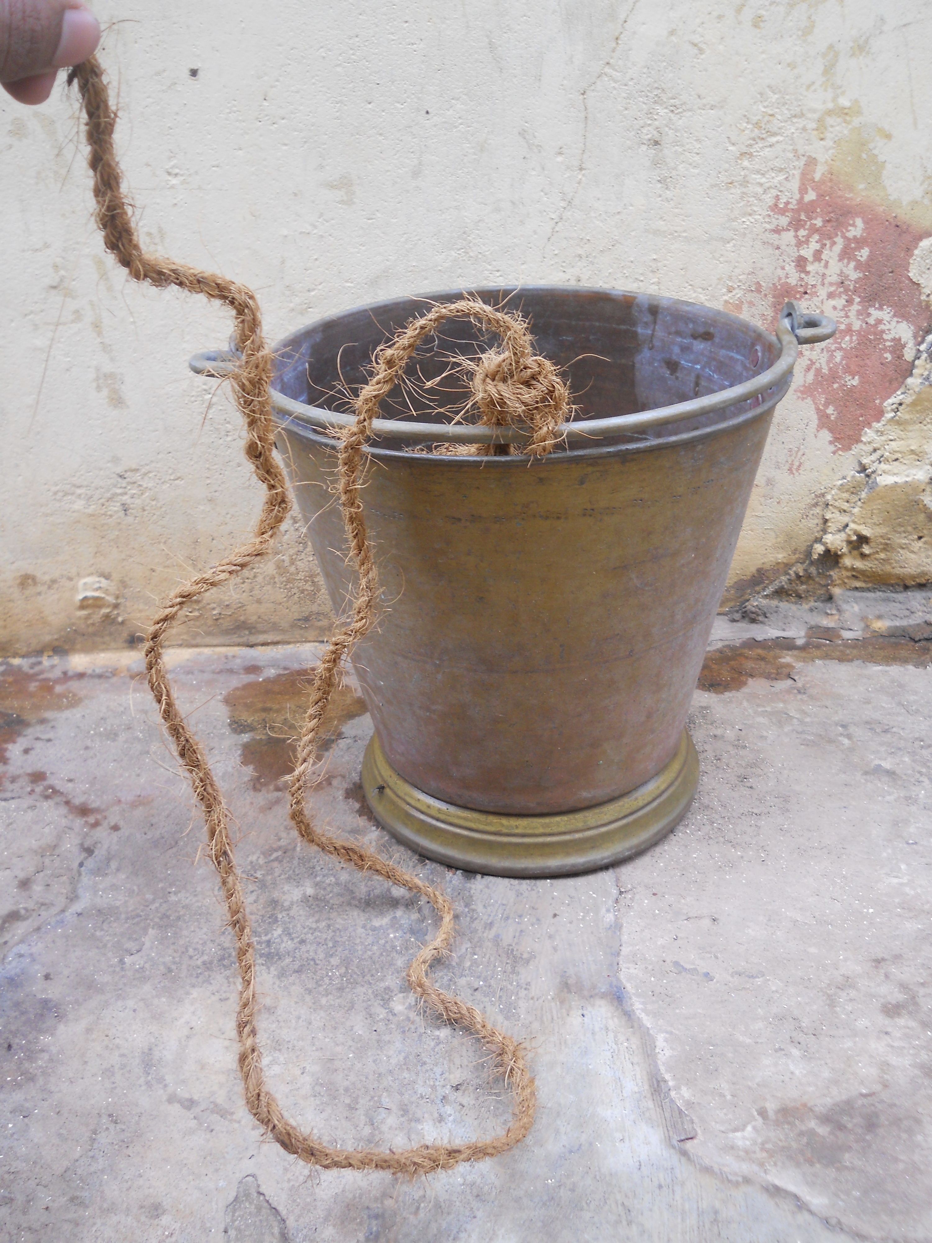 Bucket with rope